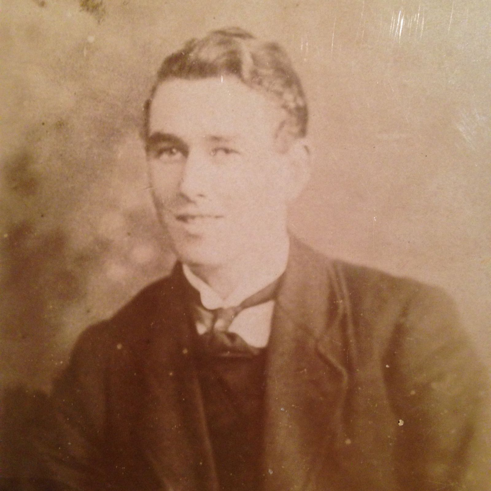 Portrait of Frank Potter